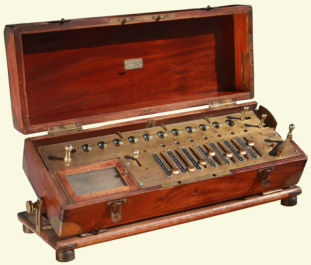 Arithmometer built by Veuve Payen around 1914 and sold by Darras around 1915